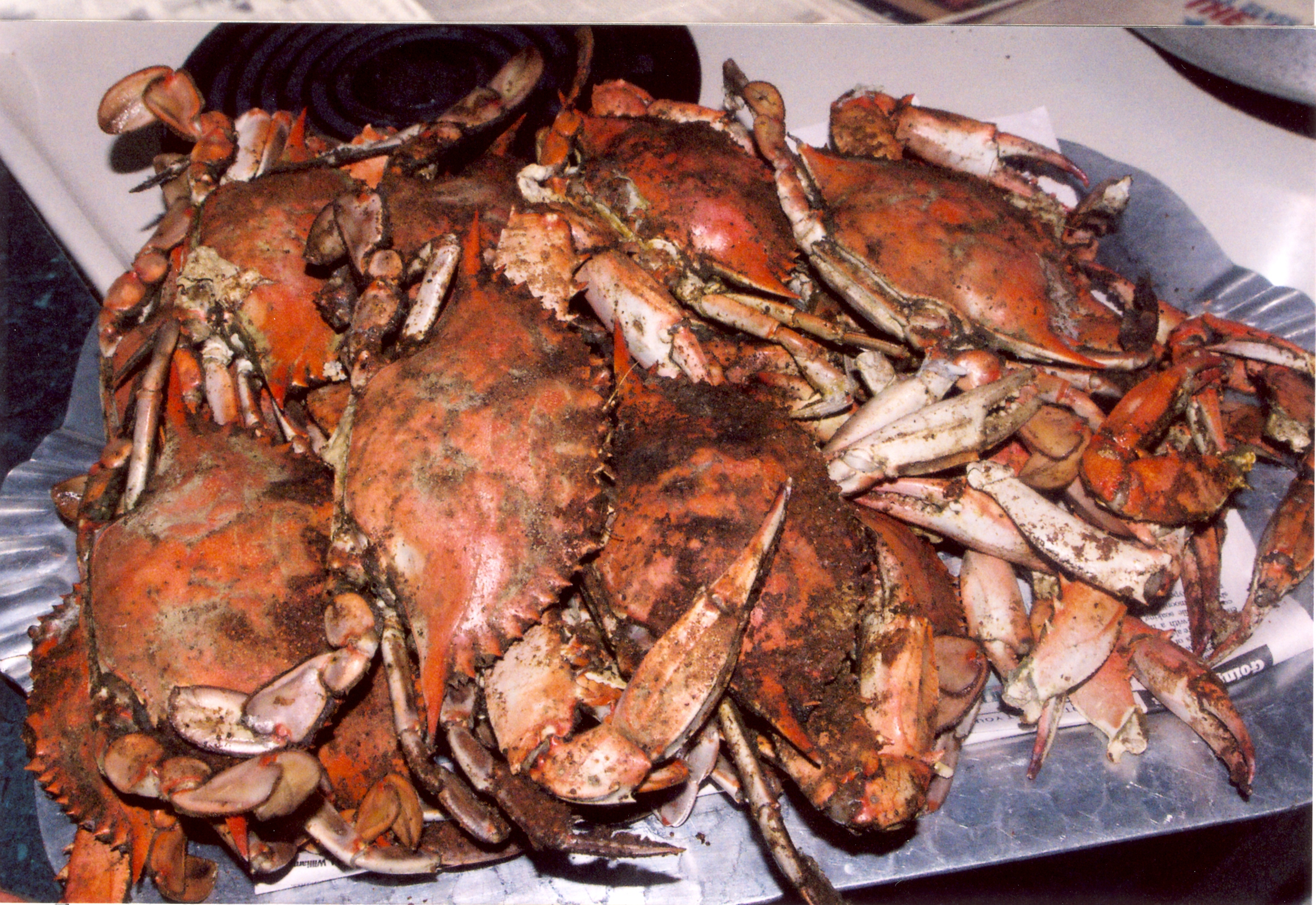 Steamed crabs. The normal pavlovian reaction is to begin to salivate. Maryland, Chesapeake Bay.